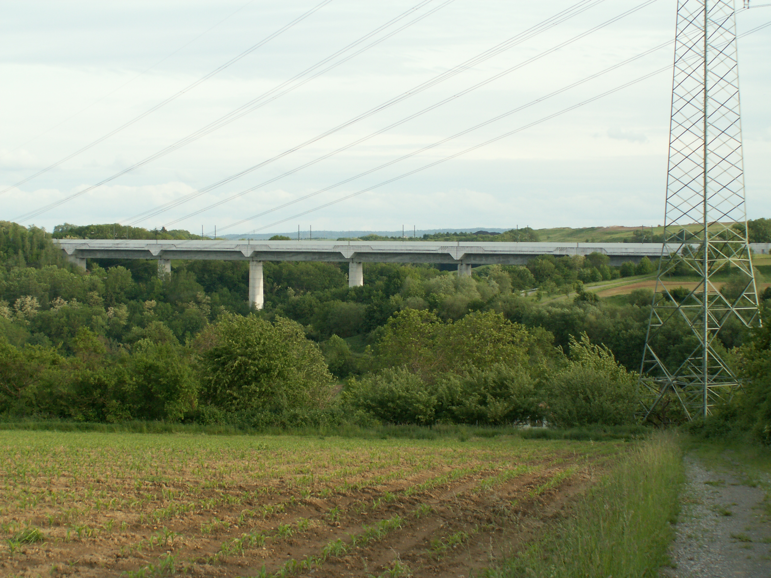 Bridge over the valley of the Glems nearby Markgroeningen in Germany